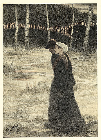 La Promise by Fernand Gottlob, lithographic print from L'Estampe moderne, vol. I, Paris, F. Champenois.